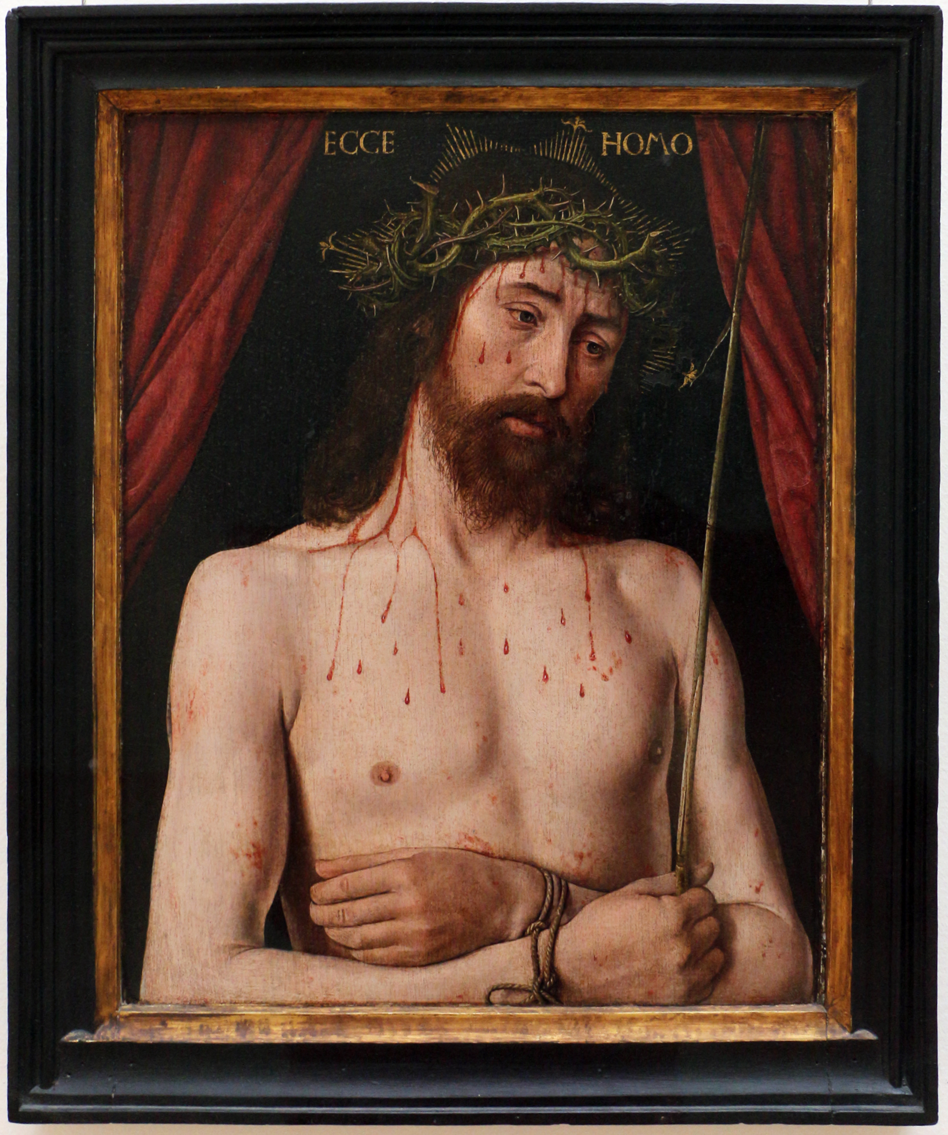 Paintings in the Royal Museums of Fine Arts of Belgium